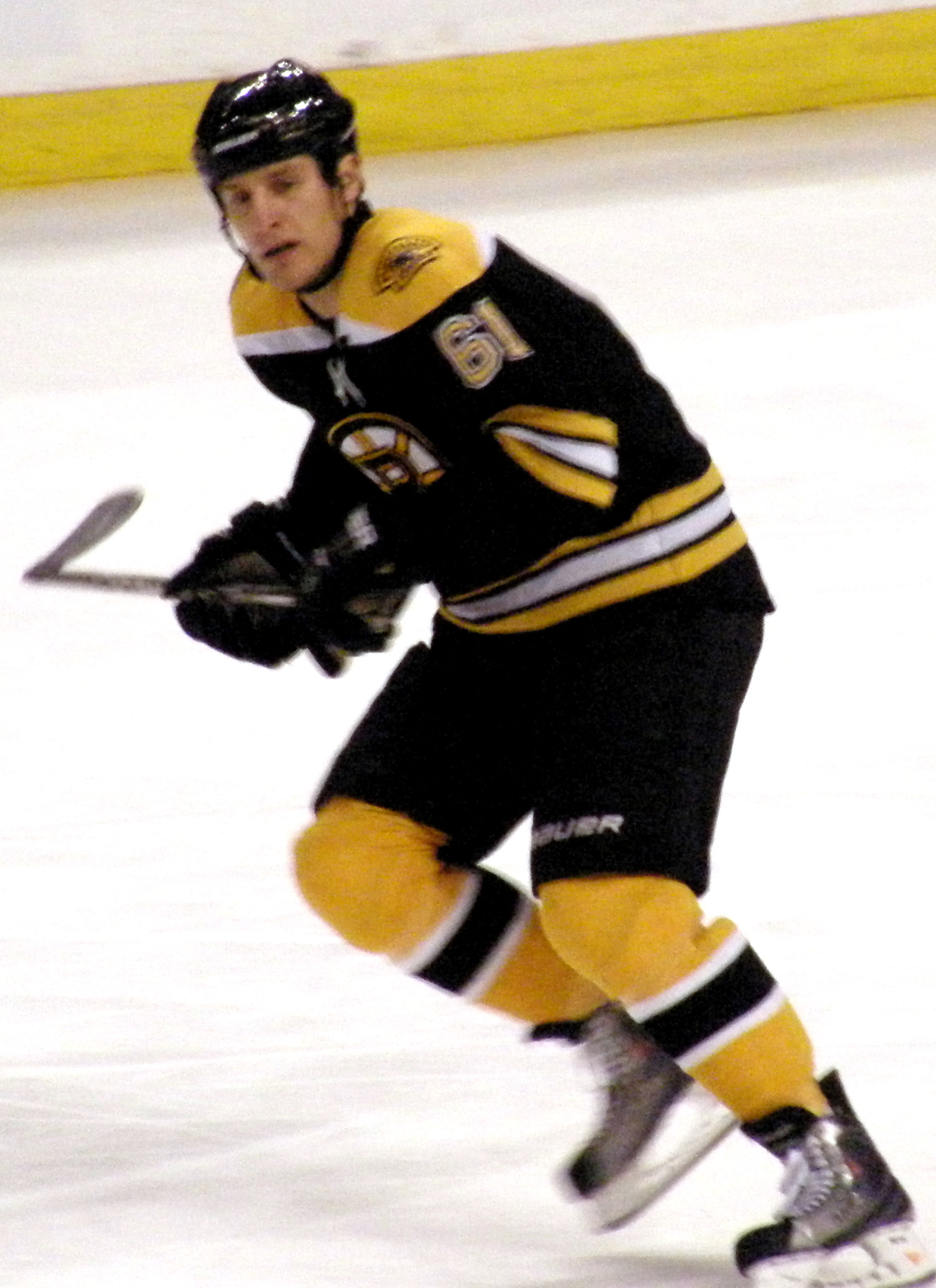 Boston Bruins winger Byron Bitz skates during a game against the Ottawa Senators on November 28, 2009.